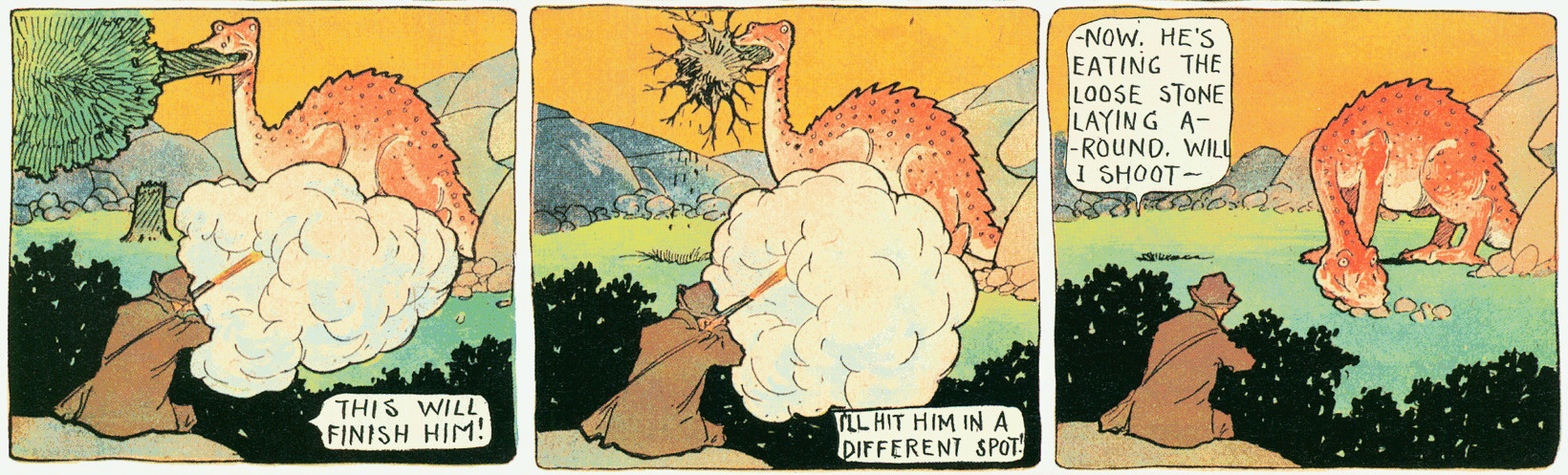 Panels 3–6 of Winsor McCay's comic strip Dream of the Rarebit Fiend episode for 1913-05-25.